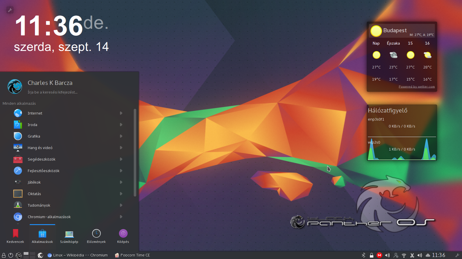 The Hungarian blackPanther OS v16.1 (Silent Killer) default Plasma 5 desktop environment